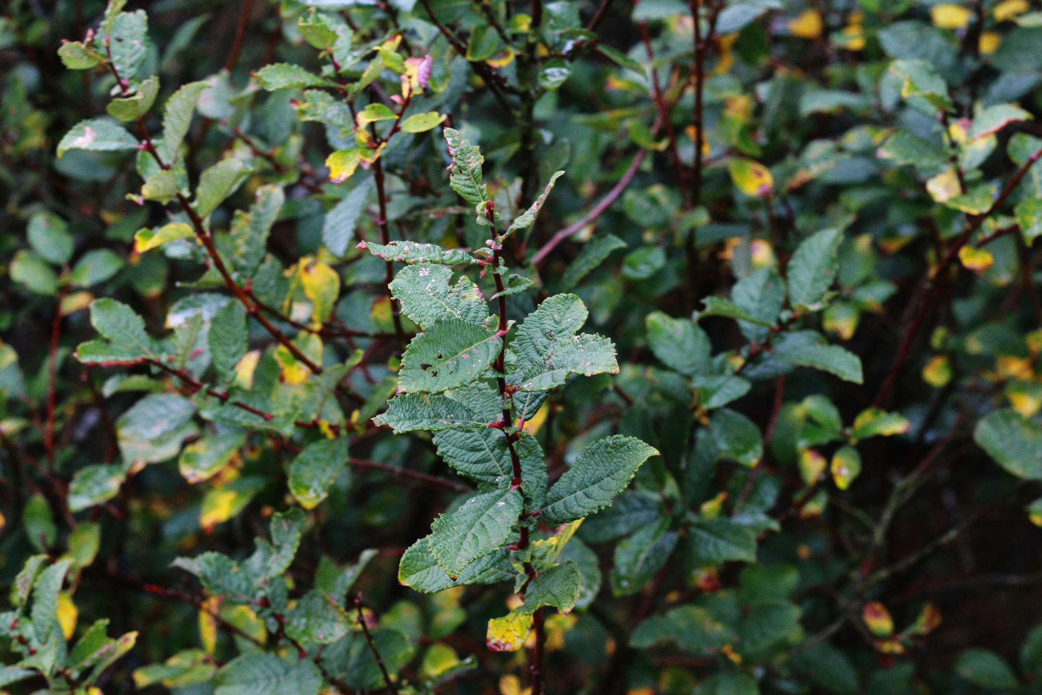 Foliage and winter buds of Salix hastata. Picture from the dunes of the island of Rømø near the southwestern coast of Jutland.